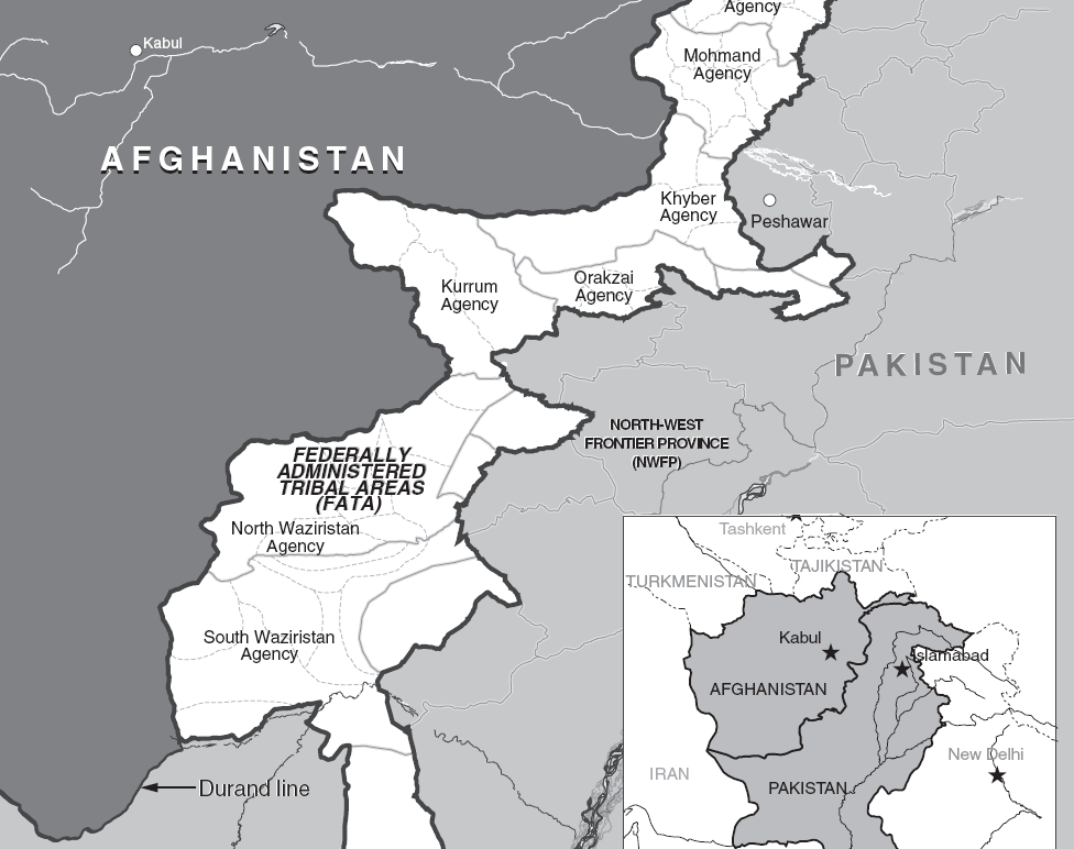 Map included in "The United States Lacks Comprehensive Plan to Destroy the Terrorist Threat and Close the Safe Haven in Pakistan’s Federally Administered Tribal Areas"